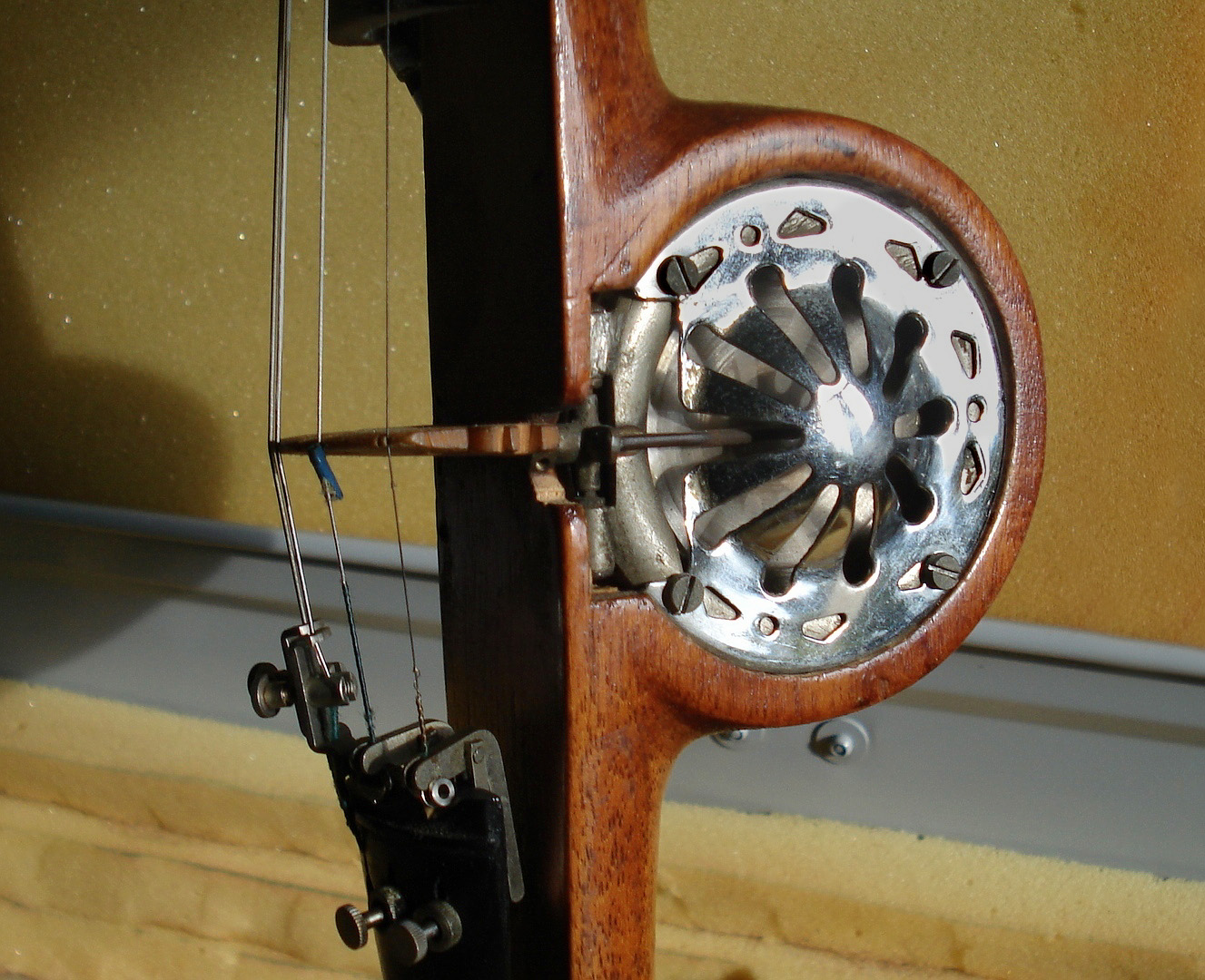 Horn-violin (trumpet-violin), detail. This detail clearly shows how the vibrations of strings and bridge are transmitted to the element of an old-fashioned grammophone. These vibrations are transformed by the membrane of this element into sound waves in the horn of the violin (the horn is not seen here). This leads to a nasal sharp sound that is used in this case in Rumanian folk music.